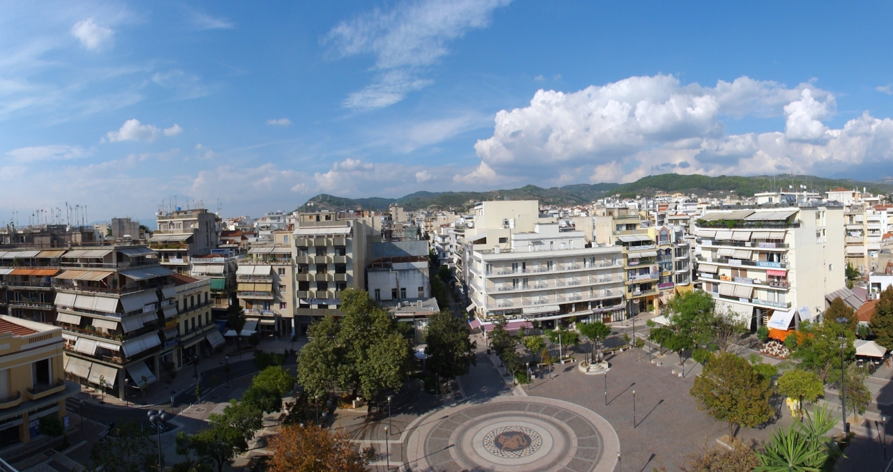 Agrinio, Greece